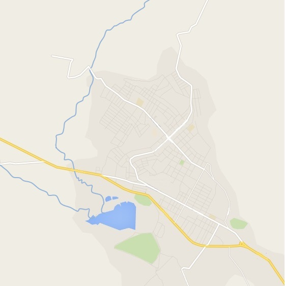 Map of Shamakhi (Azerbaijan)